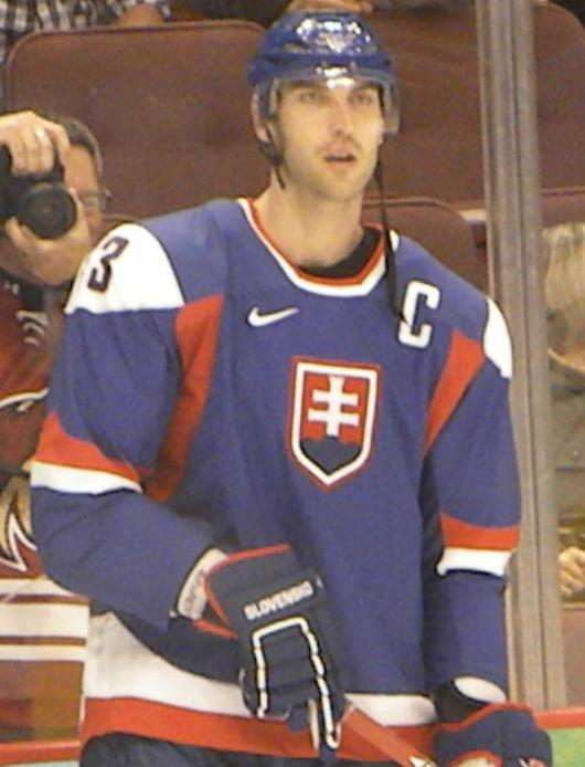 Zdeno Chara of the Slovakia men's national ice hockey team, warming up before a match against the Czech Republic men's national ice hockey team in the 2010 Winter Olympics at Canada Hockey Place on February 17, 2010.